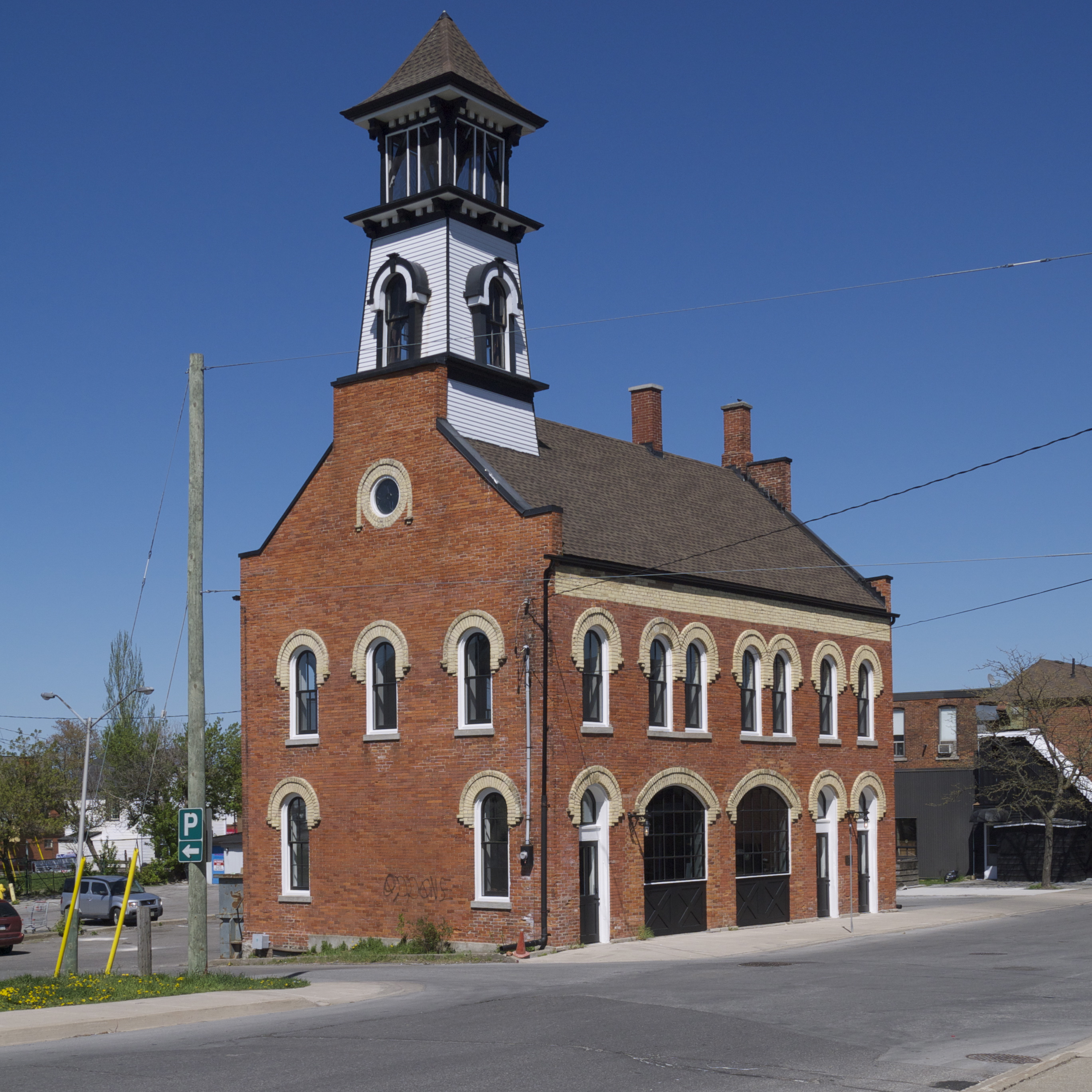 Old Firehall in Thorold, Ontario.